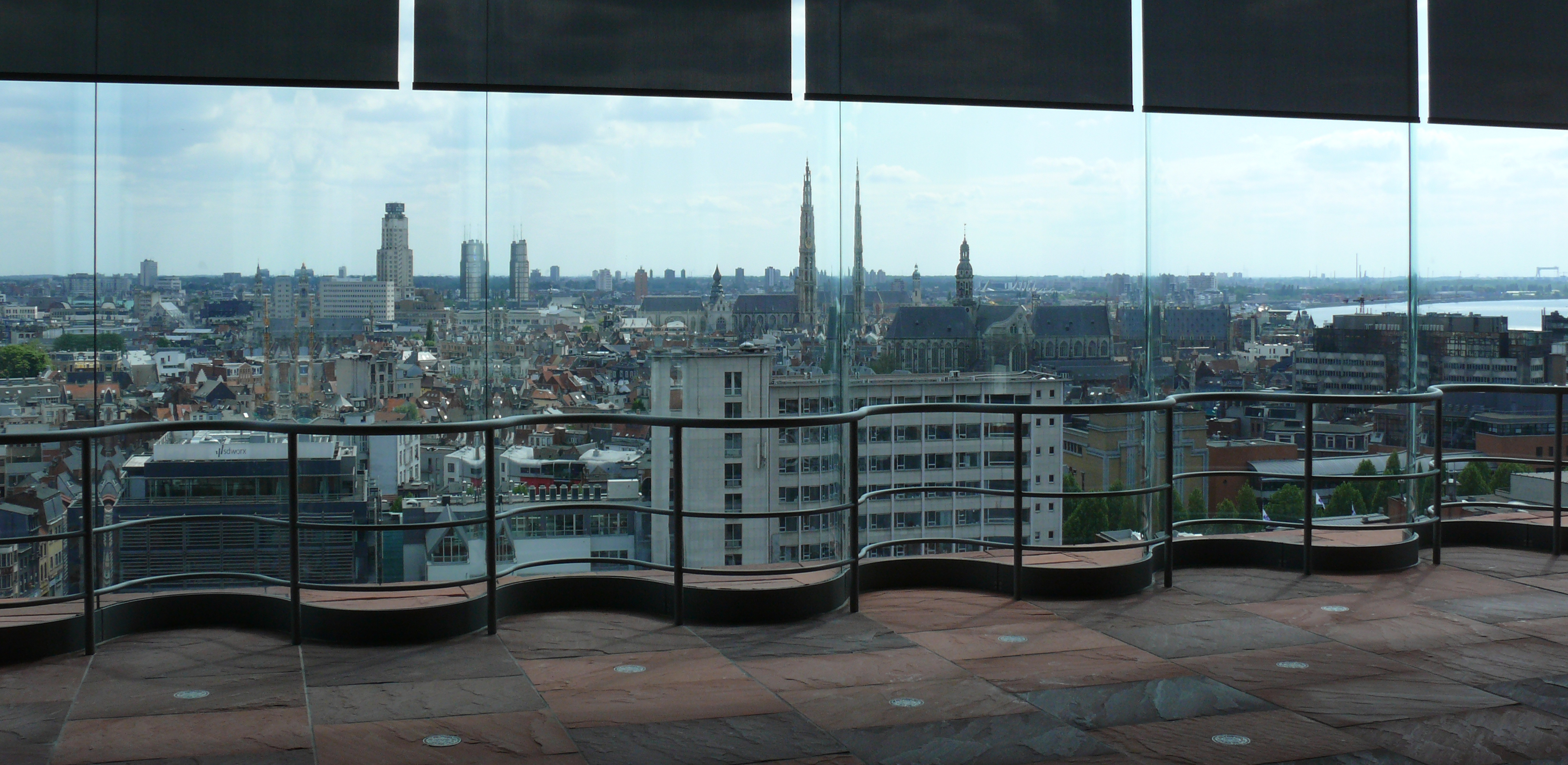 View of Antwerp from the Museum aan de Stroom (MAS).